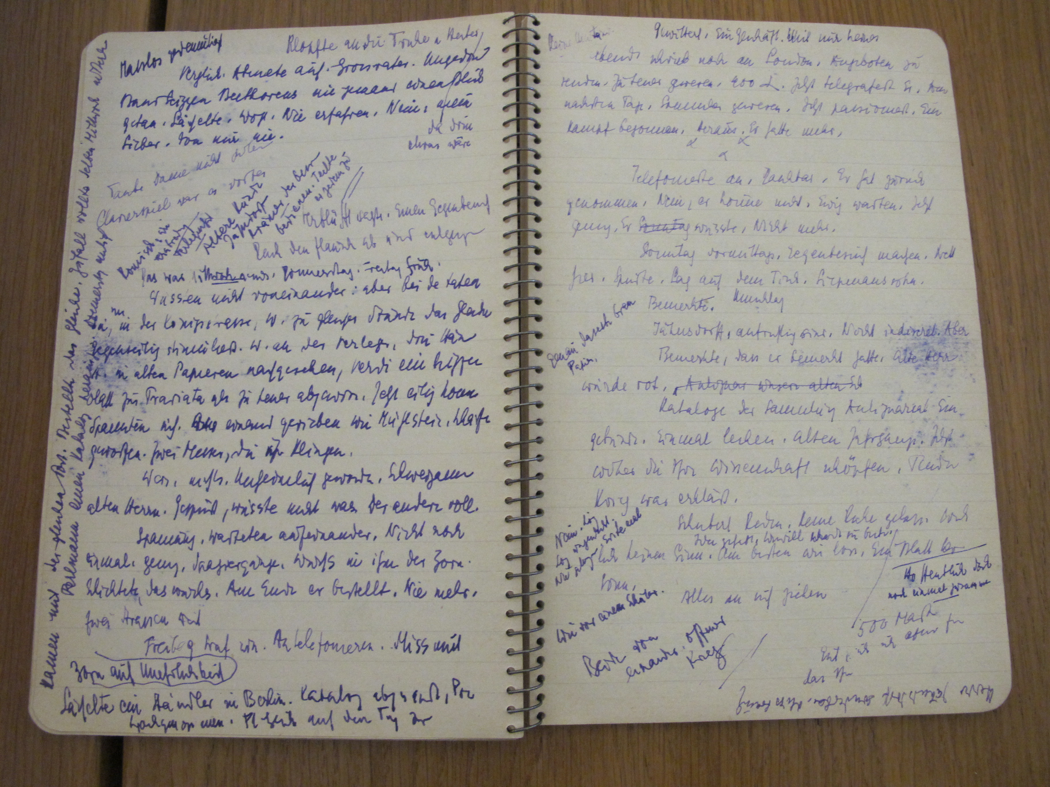 Diary by Stefan Zweig, from his time in Salzburg. Today at Literaturarchiv Salzburg